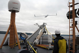 A Boeing Insitu ScanEagle unmanned aerial vehicle is launched from an aircraft catapult mounted on top of the bridge of the National Oceanic and Atmospheric Administration fisheries and oceanographic research ship NOAAS Oscar Dyson (R 224) in Puget Sound, Washington